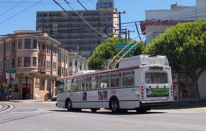 Trolleybus operated by MUNI in San Francisco